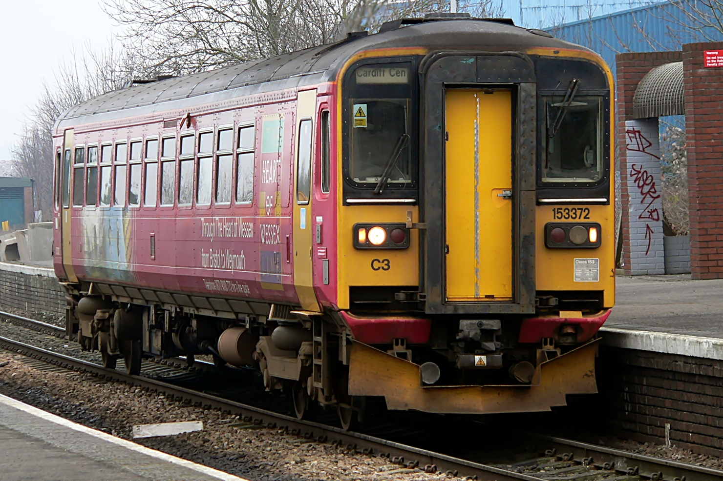 Wessex Trains Class 153 DMU 153372 on a Taunton to Cardiff Central service at Patchway railway station. During off-peak times this hourly service is the only one to call at the station.